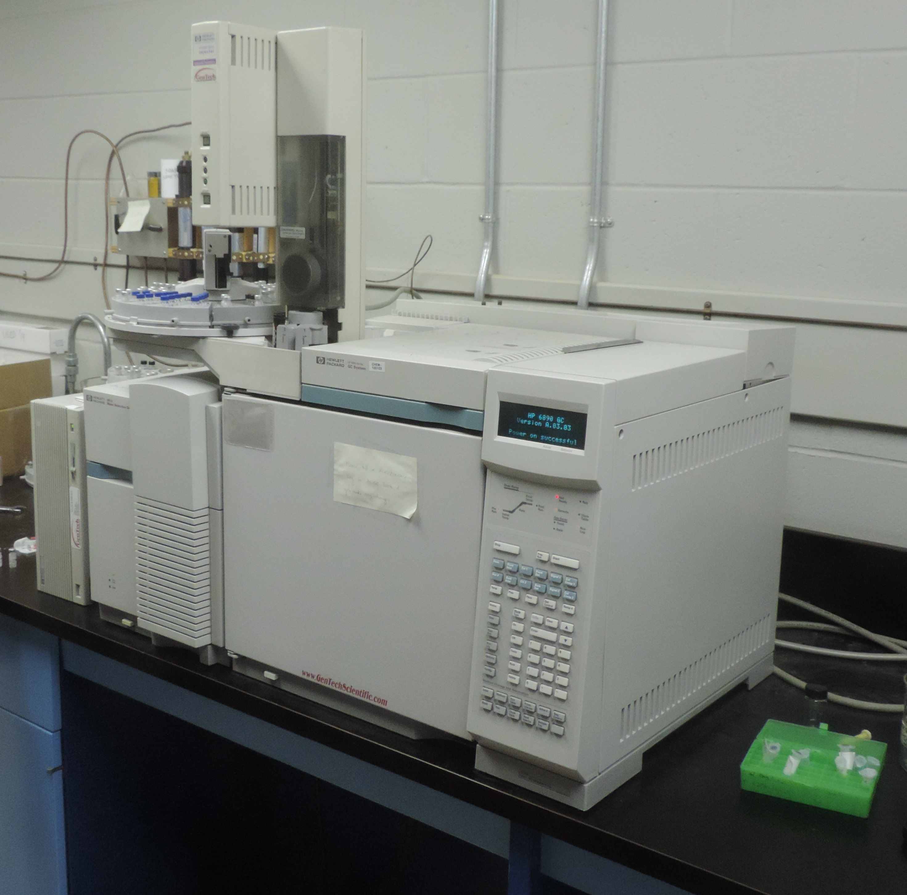 An HP 6890 gas chromatogram, coupled to an EI mass spectrometer. This instrument was originally used as a prop in the TV show CSI, where it never ran an actual sample. When the show ended, the machine was sold on eBay, and purchased by the Dalhousie University Chemistry Department. Since 2016, the machine is used in the undergraduate analytical lab by students in the third year analytical chemistry course.